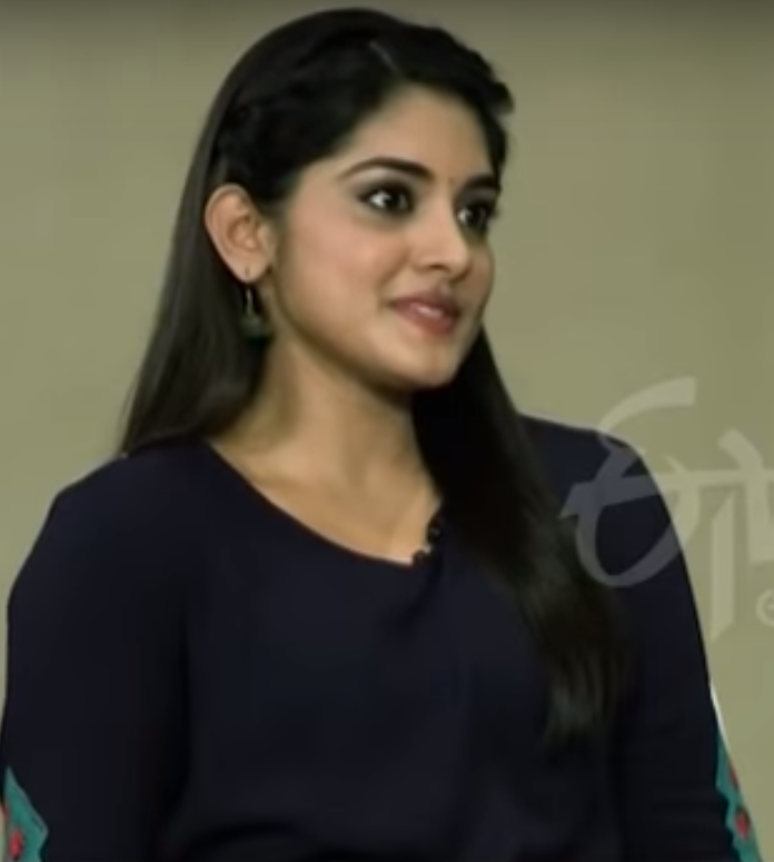 Niveda thomad jai lava kusa interview